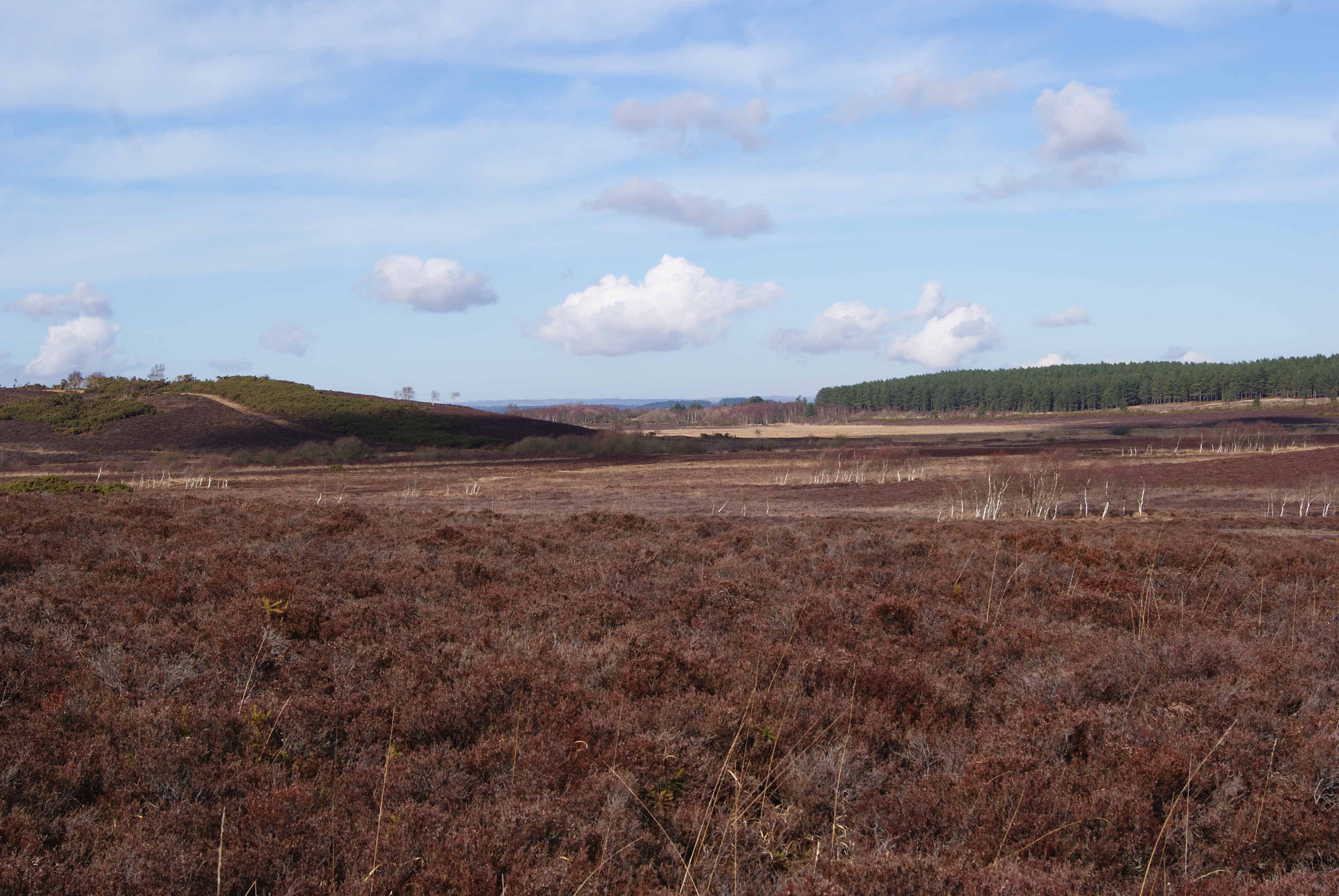 Hartland Moor National Nature Reserve Hartland Moor is one of the finest and most extensive surviving examples of Hardys "Egdon", where a real sense of the open heathland landscape can still be experienced.